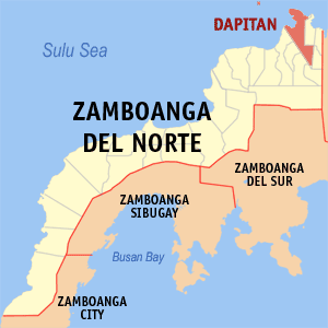 Map of the Zamboanga del Norte showing the location of Dapitan